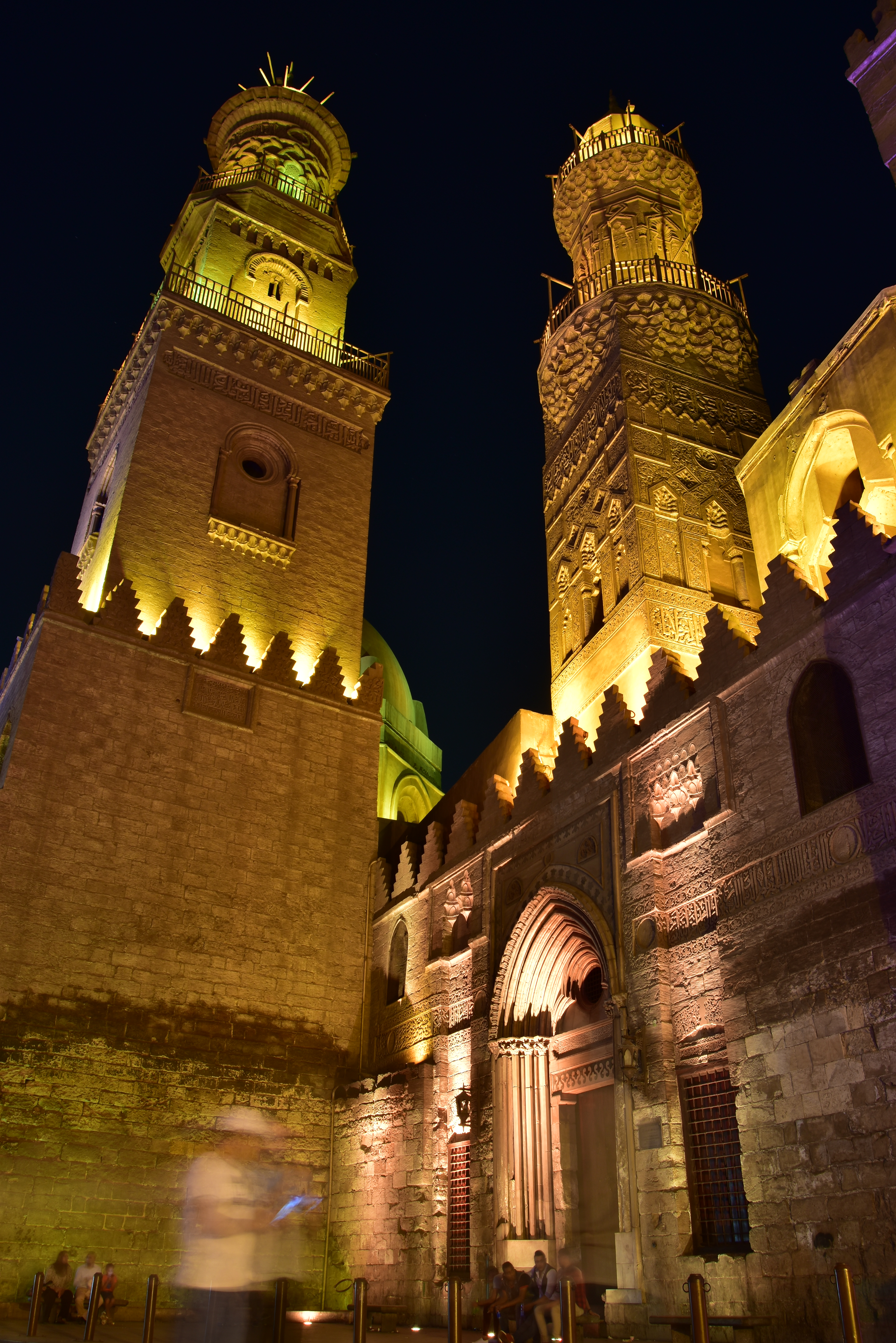 The Qalawun Complex was built over the ruins of the Fatimid Palace of Cairo, with several halls in the Palace. It was sold to several people until it was finally bought by the Sultan Qalawun in 1283 AD. The structure resides in the heart of Cairo, in the Bayn al-Qasrayn, and has been a center for important religious ceremonies and rituals of the Islamic faith for years, stretching from the Mamluk dynasty through the Ottoman Empire.